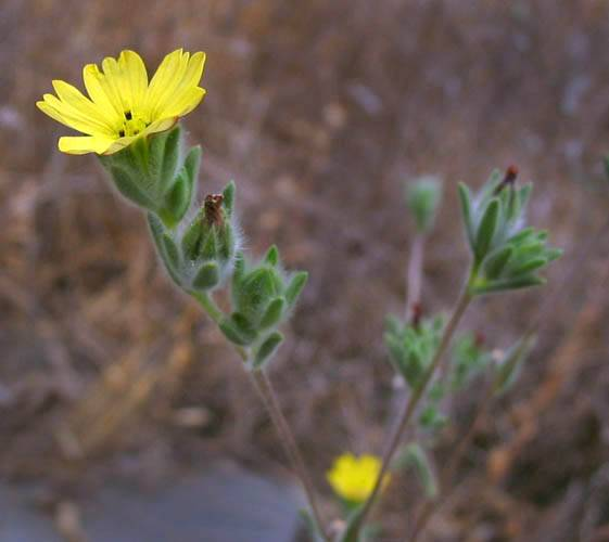 Lagophylla ramosissima ssp. ramosissima at Westlake open space, Santa Monica Mountains National Recreation Area, California, USA.